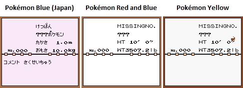 The Pokédex data for MissingNo. in the Pokémon video game series.